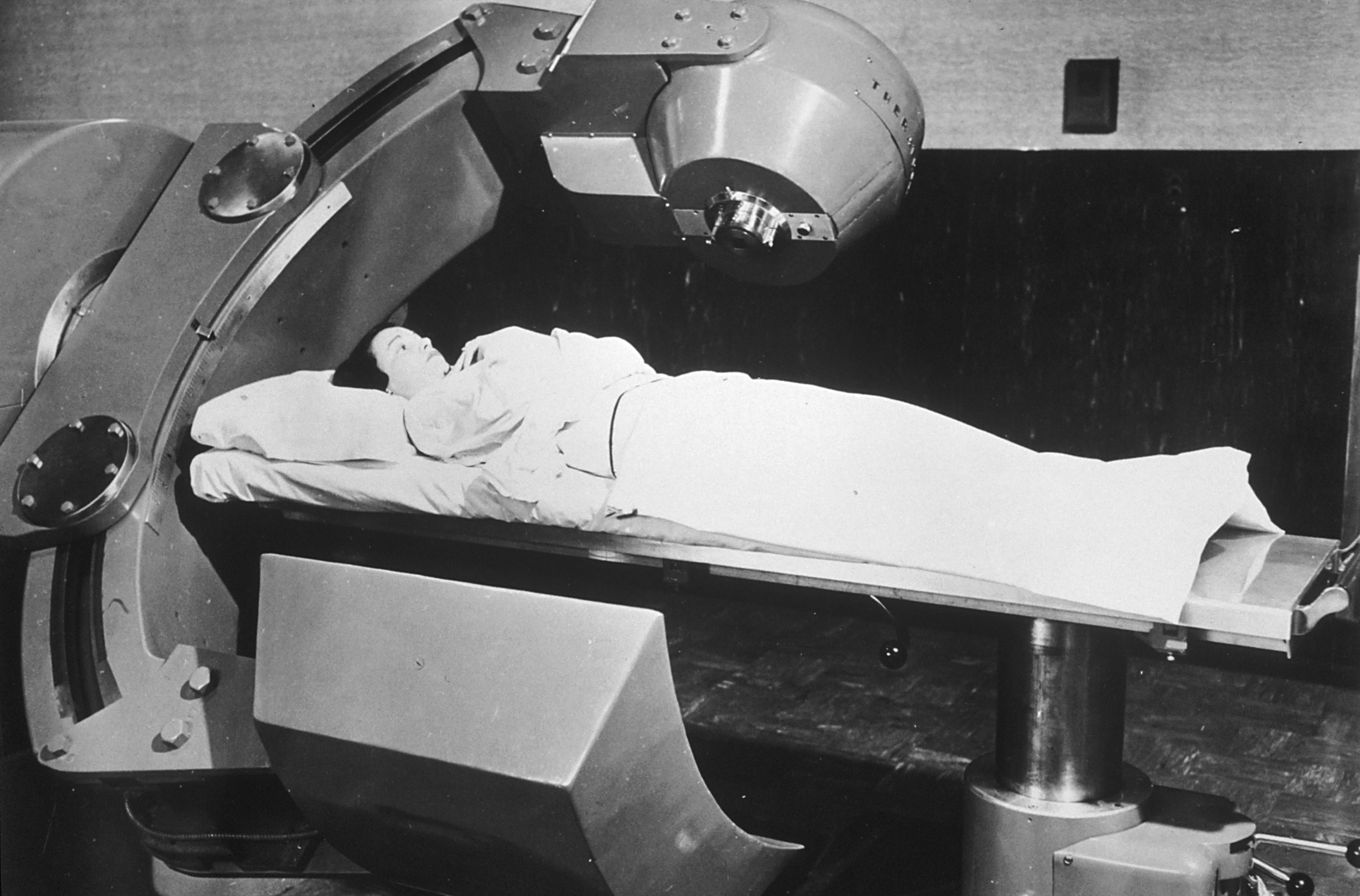 Title: Historical: Treatment: Cobalt 60 Cancer Therapy Description: Shows photo of person receiving Cobalt 60 cancer therapy. Subjects (names): Topics/Categories: Historical -- Treatment Type: Black & White Print. Black & White Slide Source: G. Terry Sharrer, Ph.d. National Museum Of American History. (Science, Technolo Author: Unknown photographer/artist AV Number: AV-0000-4309 Date Created: Unknown Date Added: 1/1/2001 Reuse Restrictions: None - This image is in the public domain and can be freely reused. Please credit the source and/or author listed above.